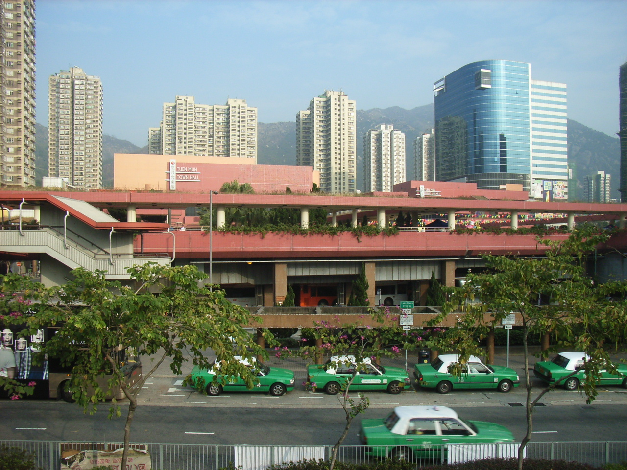 屯門文娛廣場 (Tuen Mun Cultural Square)，屯門, Tuen Mun, New Territories, Hong Kong. (Photo created by User:TUmuMATo)。